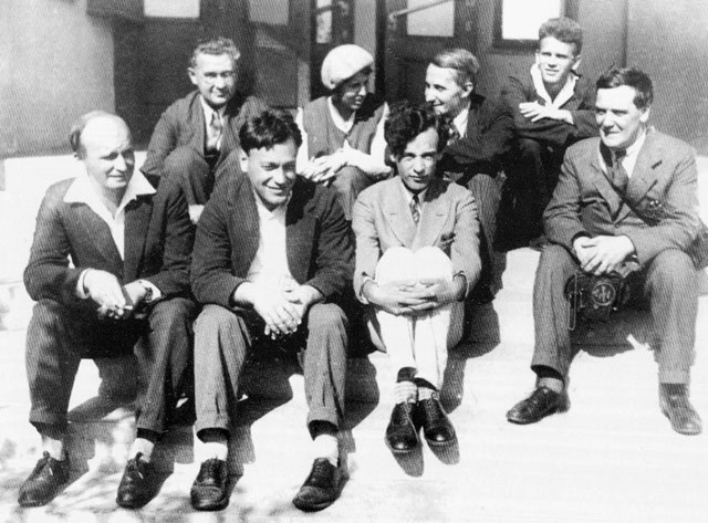 Left to right, 1st row: L.B. Shubnikov, A.I. Leypunsky, L.D. Landau, P.L. Kapitsa; 2nd row: B.H. Finkelstein, O.N. Trapeznikova, K.D. Sinelnikov, Yu.N. Riabinin.